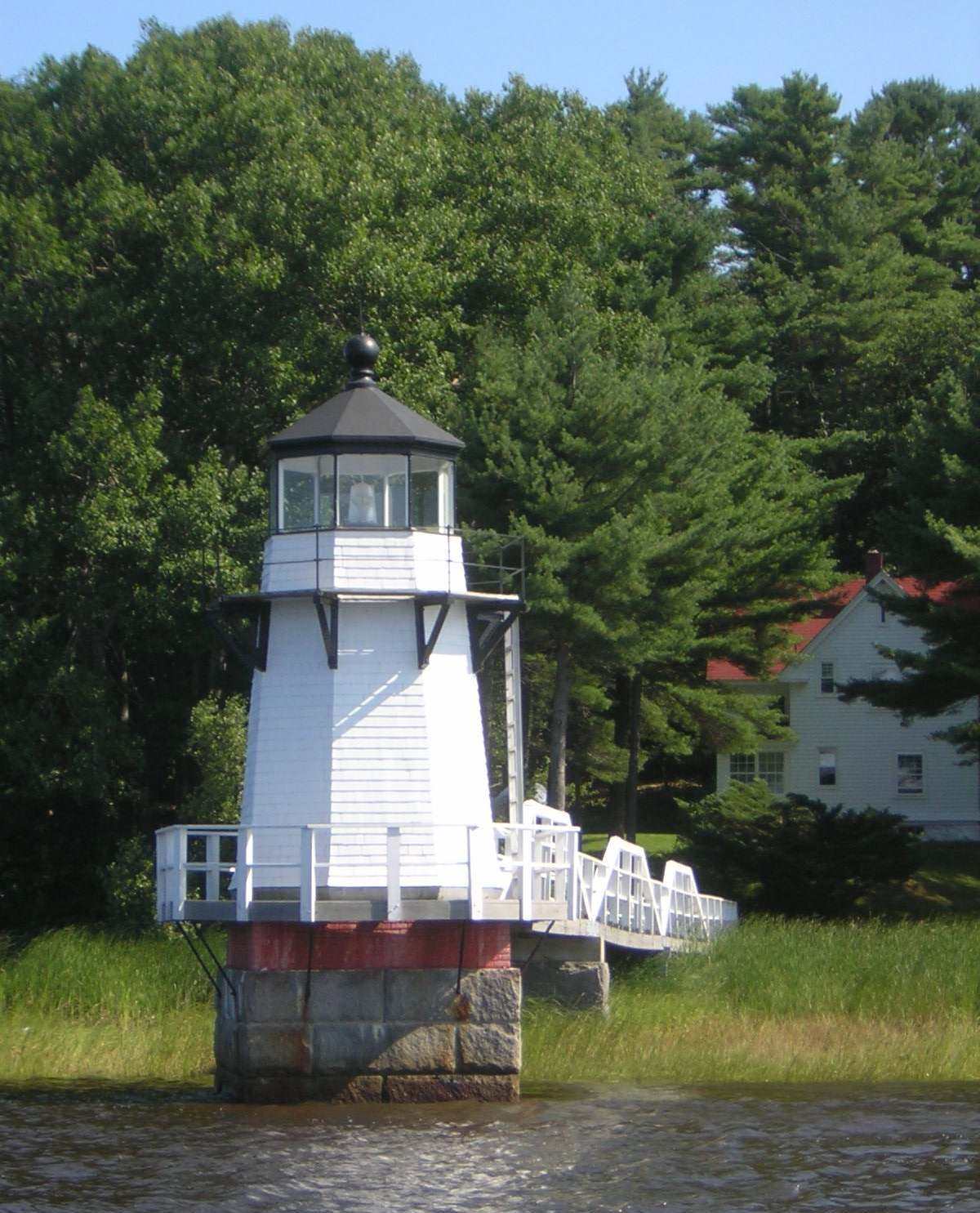 Doubling Point Lighthouse, Georgetown, Maine, USA, with keeper's house in background